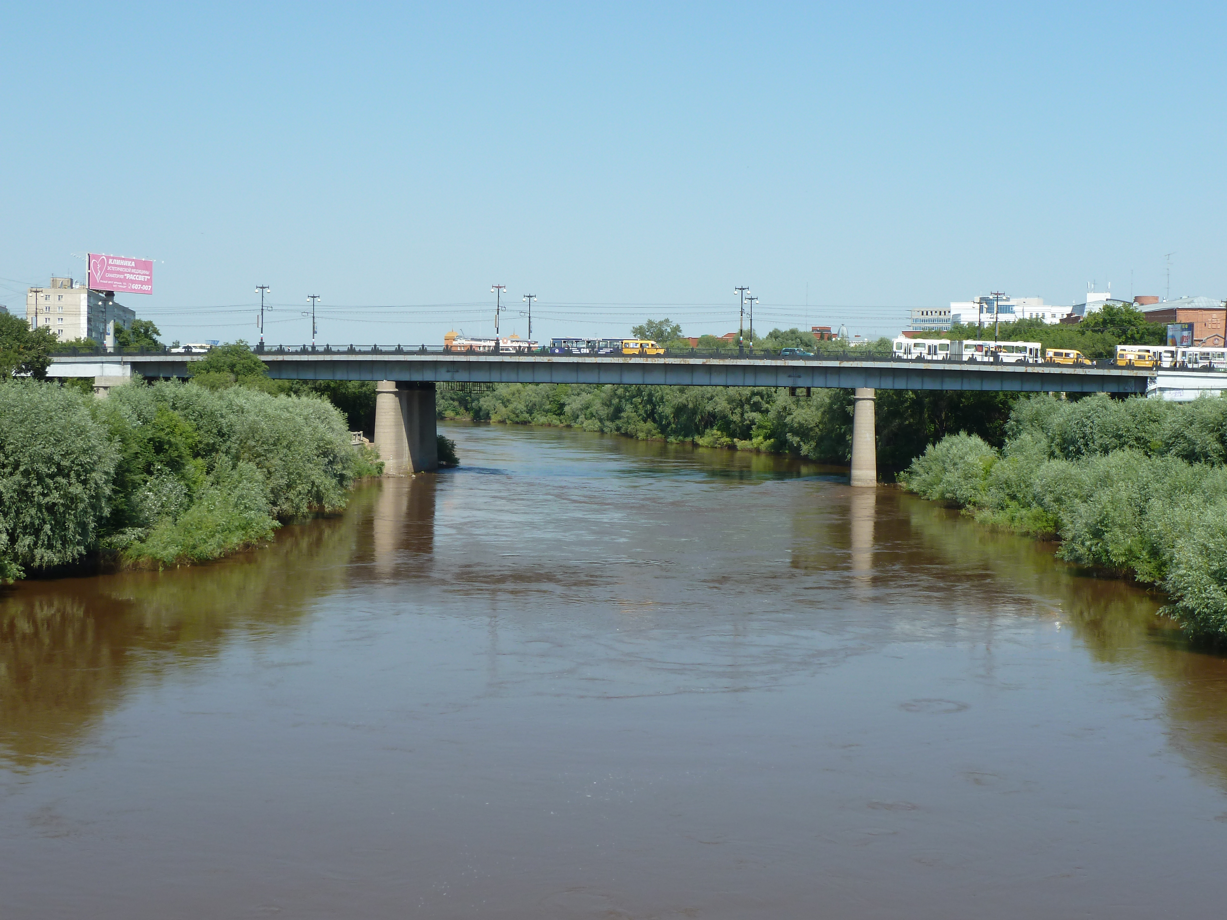 Komsomolsky bridge over the Om River in Omsk, Russia.